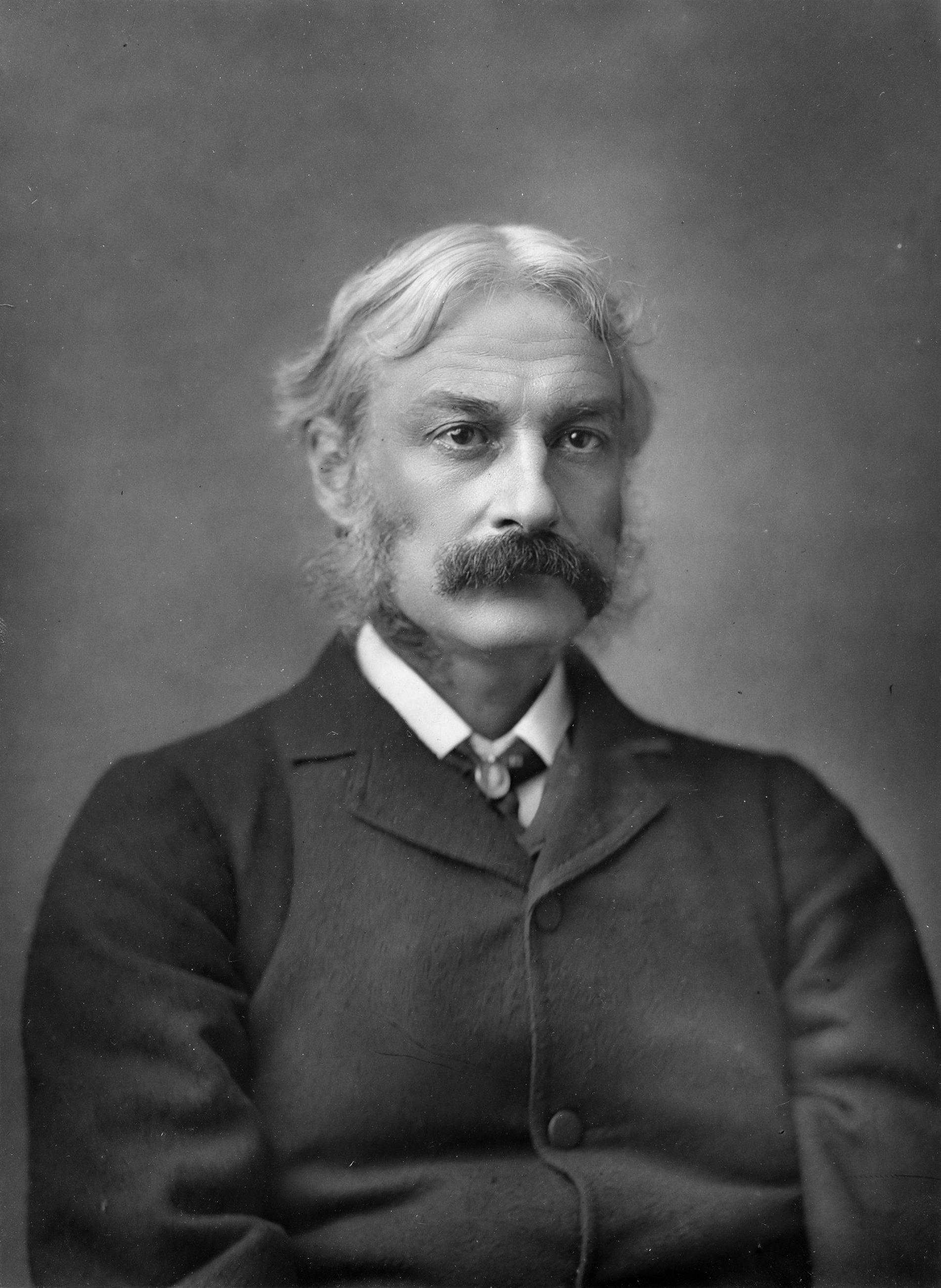 Andrew Lang (1844-1912) Original image: [1]